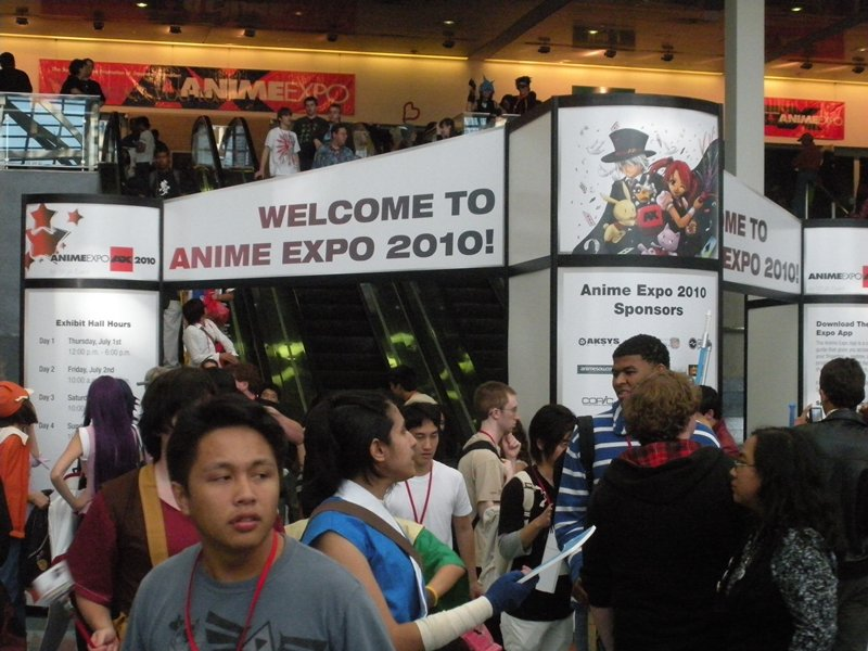 Anime Expo 2010 at Los Angeles Convention Center